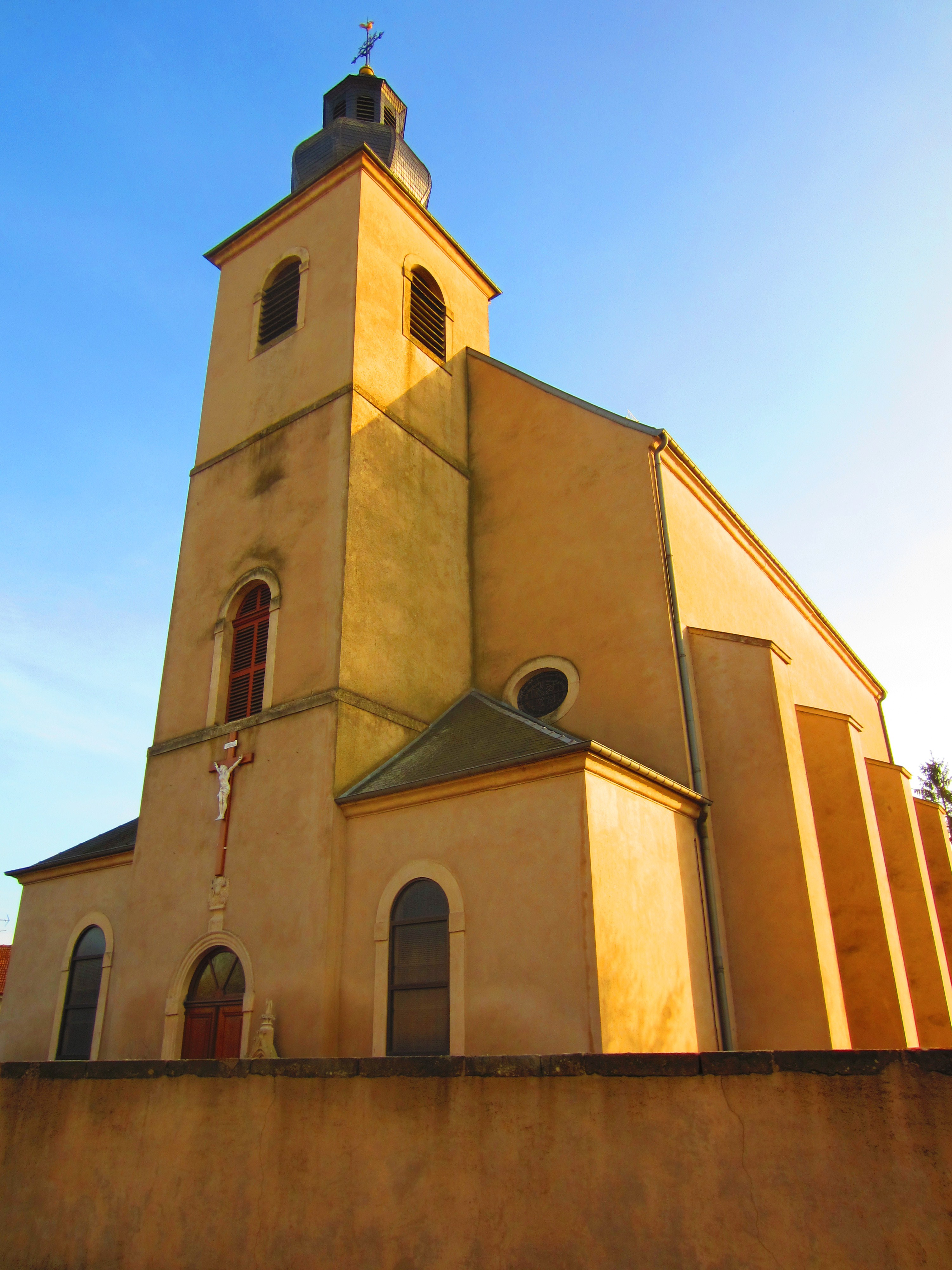 Berg Moselle church